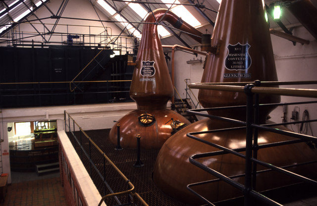 Stills at Glenkinchie Distillery.